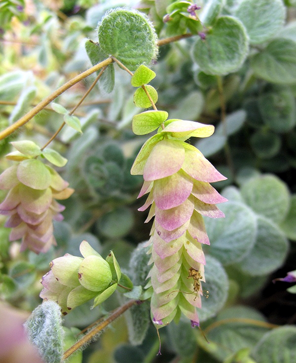 Origanum dictamnus family Lamiaceae